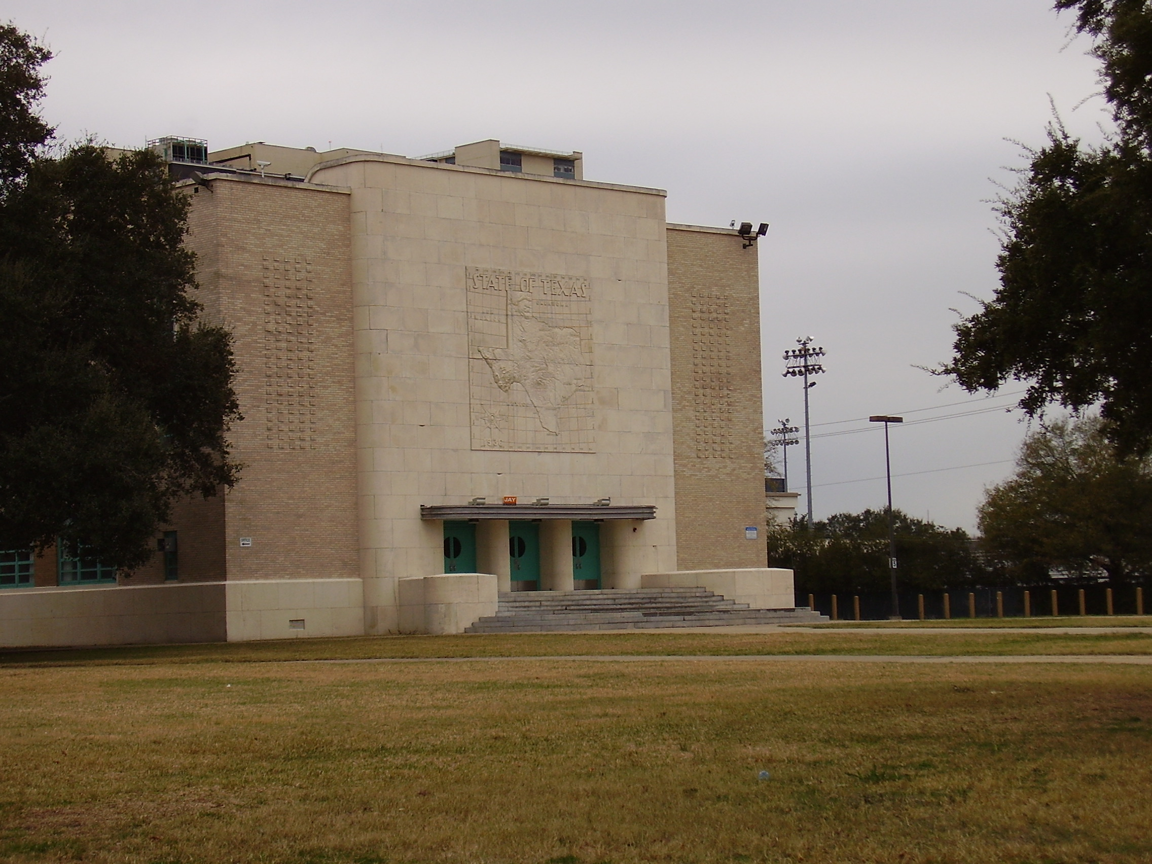 Mirabeau B. Lamar High School with a map of Texas